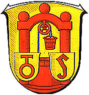 Coat of Arms of Büttelborn